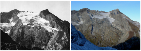 Photo Comparison of Ossoue Glacier, Vignemale, Pyrenees: 1911 und 2011